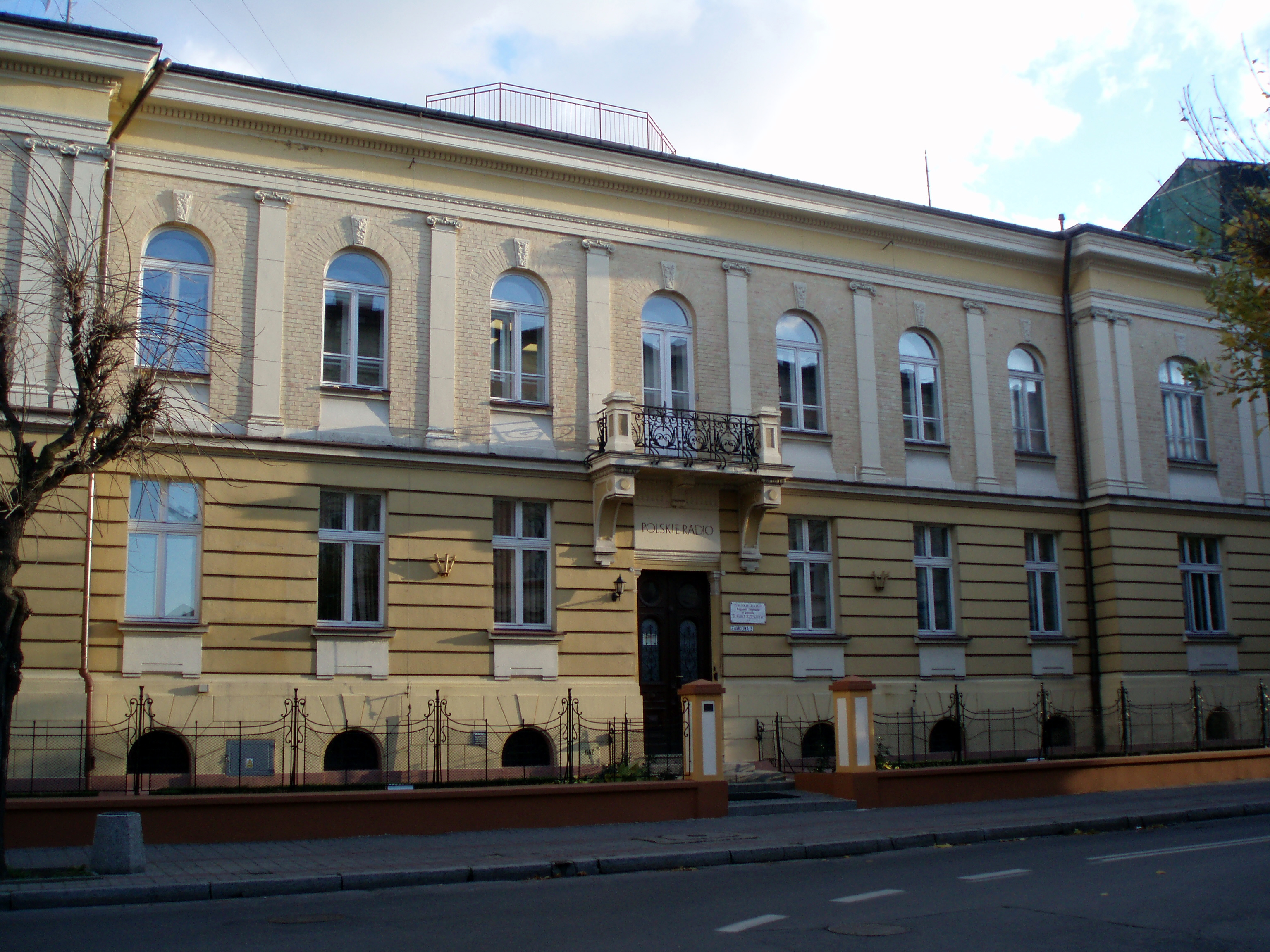 Polish Radio in Rzeszów